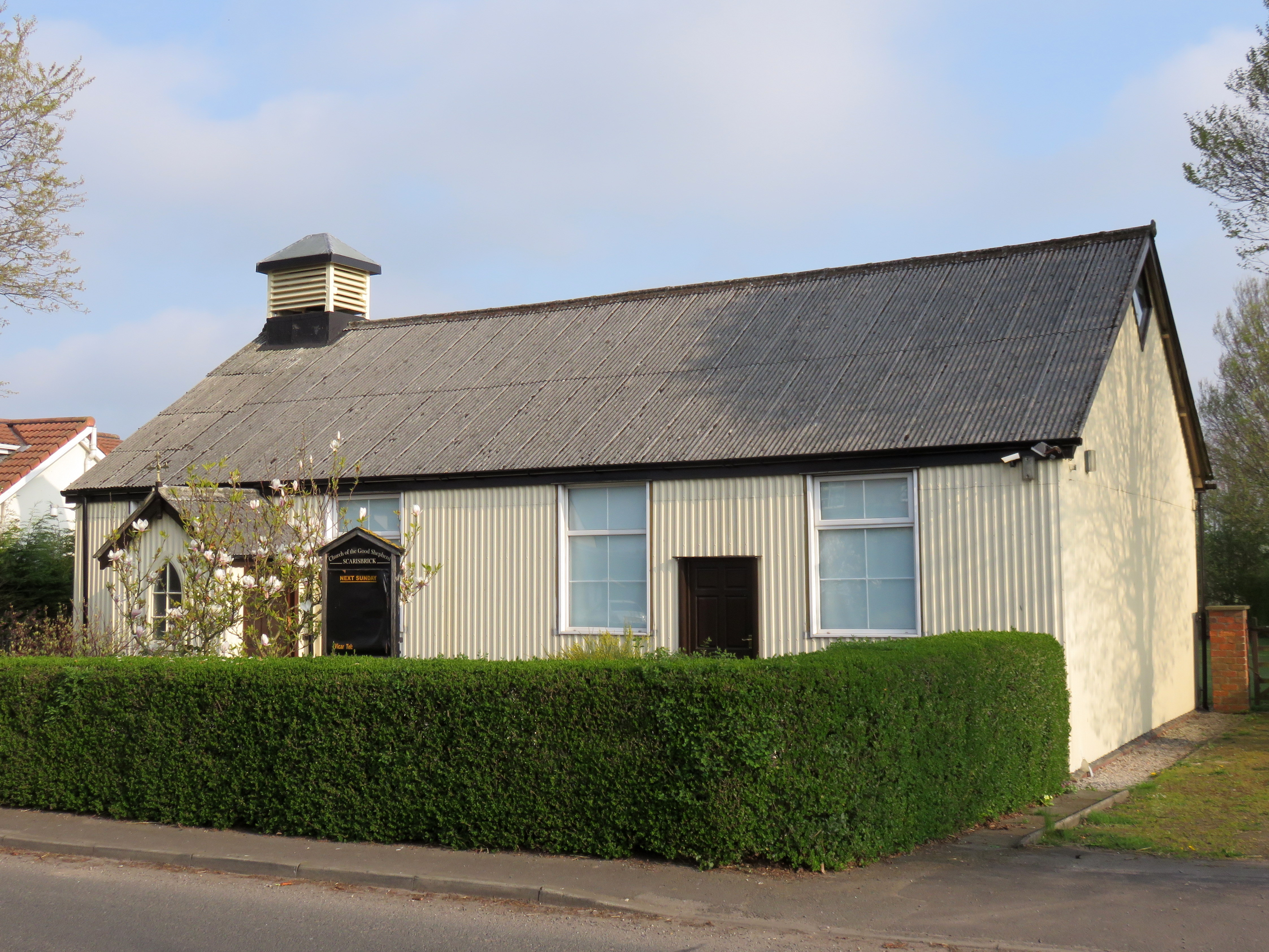 The Good Shepherd Mission on Smithy Lane, Scarisbrick.